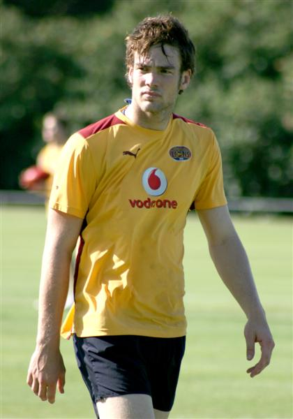 Aaron Cornelius at a Brisbane Lions public training session in 2008.